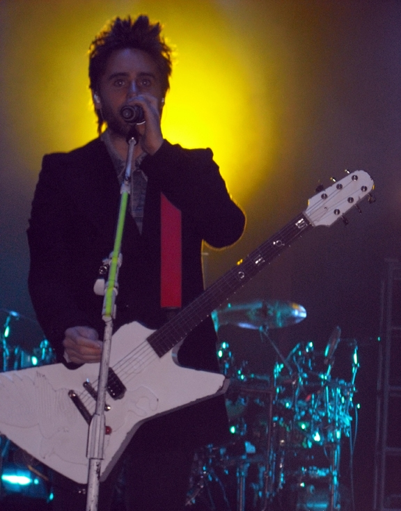 Jared Leto live with Thirty Seconds to Mars at the Verizon Wireless Theater in Houston on December 3, 2009.